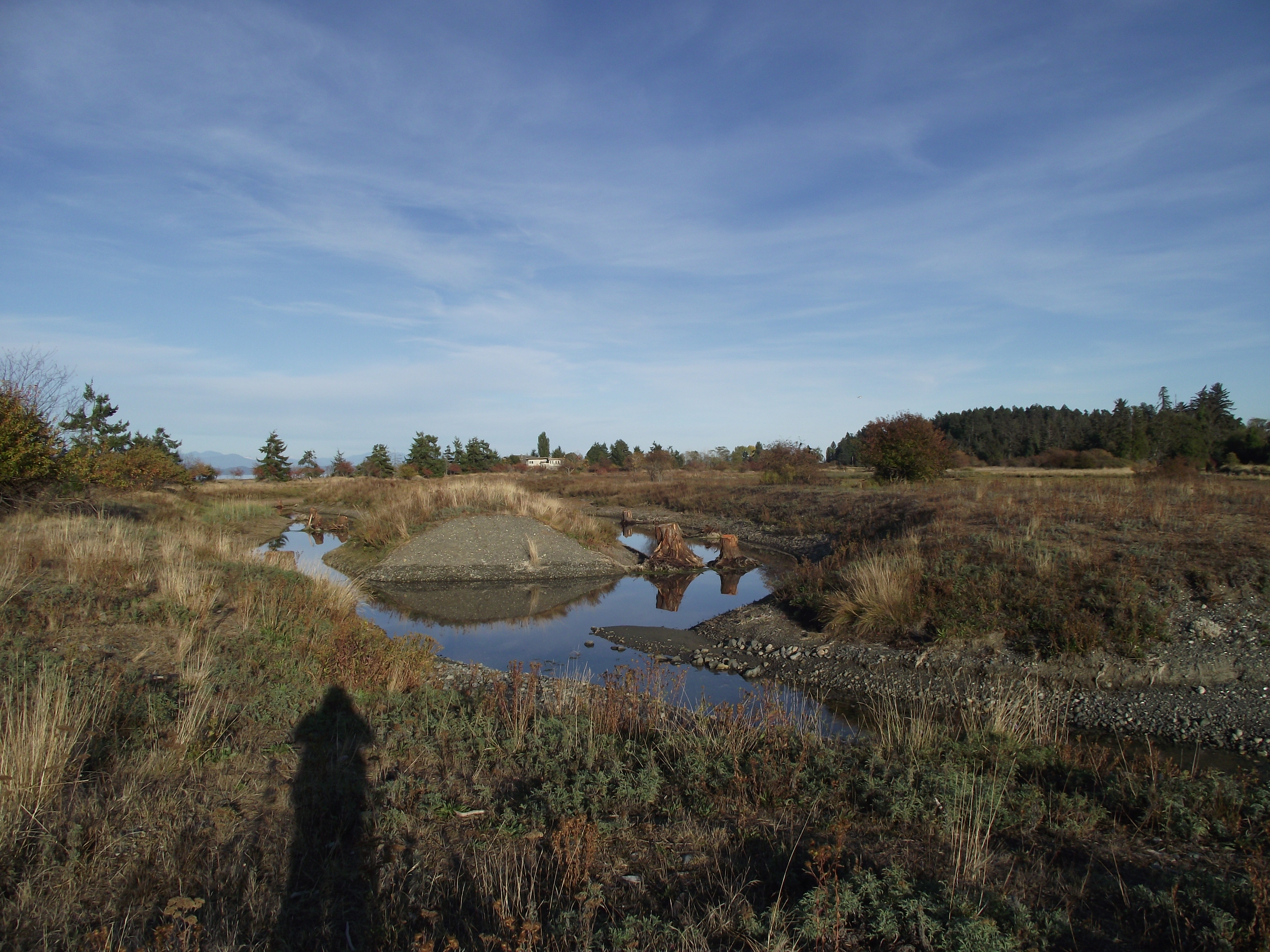 Diversions created to slow flow and stop erosion